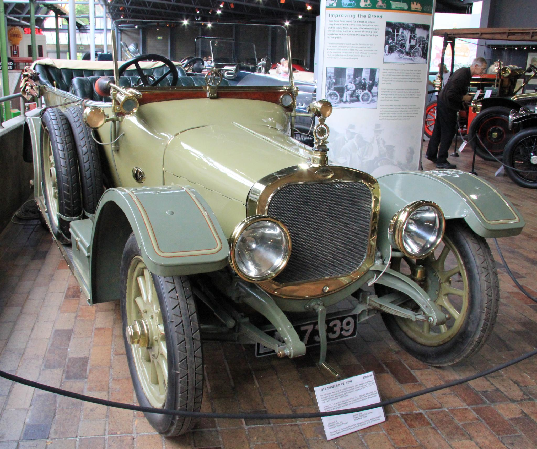 1914 Sunbeam 12/16hp British The 16/20hp was one of Louis Coatalen's early designs and helped Sunbeam to become one of Britain's premier car manufacturers. The car's excellent design was proved by Sunbeam's success in the 1911, 1912 and 1913 Coupe de l'Auto Races. A new 12/16 version appeared at the 1911 Olympia Show when the monobloc L-head developed for the Coupe de l'Auto. The use of forced oil feed to the engine bearings was an innovative feature of the model. Cylinders: 4 Valves: Side Capacity: 3016cc Power Output: Not known Maximum Speed: 50mph Price New: £535 Manufacturer: Sunbeam Motor Car Company Limited, Wolverhampton Owner: National Motor Museum Trust (Bequest of Mr J. MacKinley)